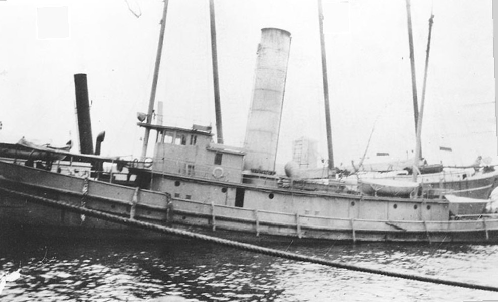 Luckenbach No. 4 (U.S. Tug, 1913) Photographed circa 1917. This tug was acquired by the Navy on 12 October 1917, renamed USS Nahant (SP-1250) on 30 October 1917 and commissioned on 1 December 1917. She was loaned to the New York police force from 24 February 1920 to 1928. Stricken on 27 September 1928, she was sold on 24 December 1928.